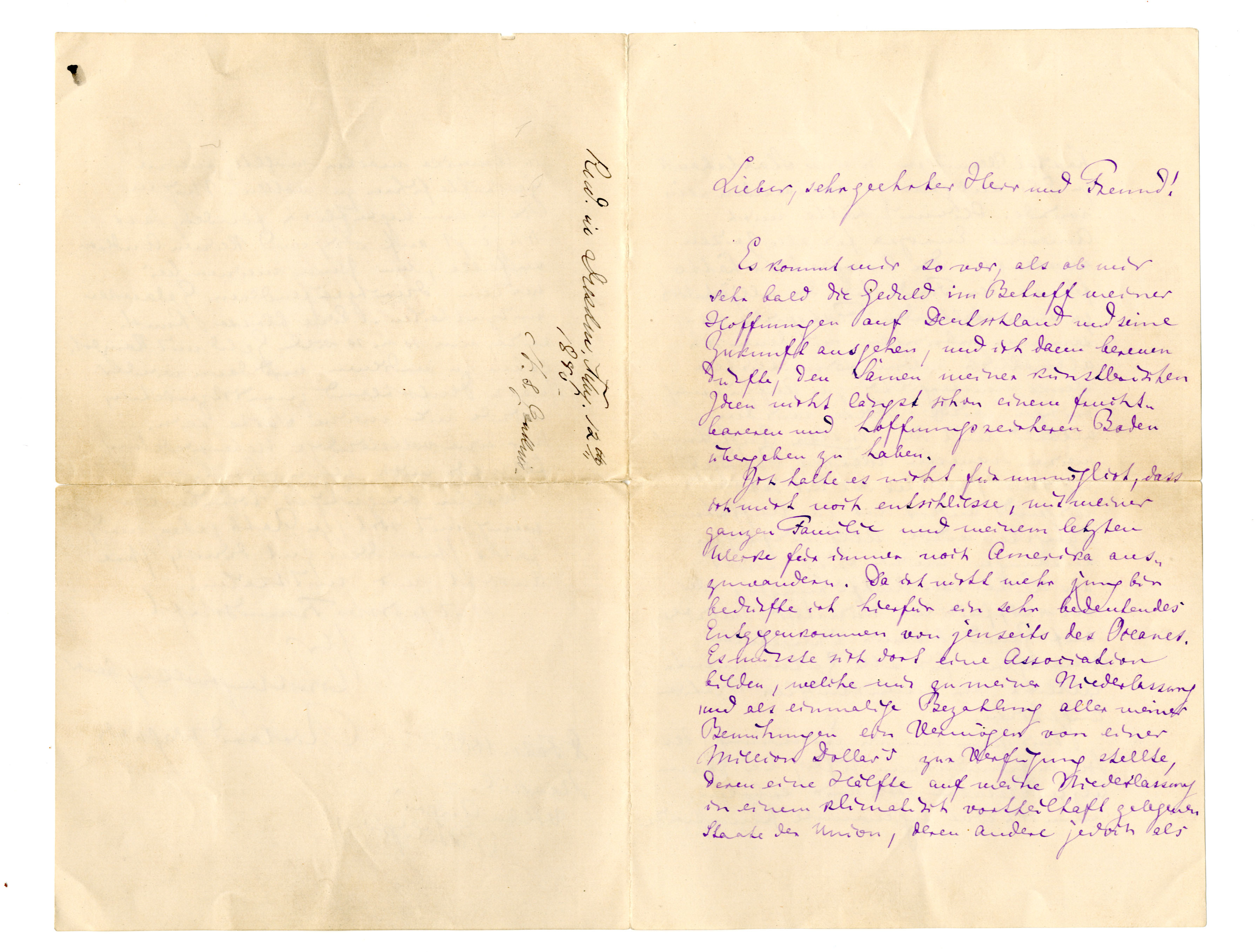 Letter from Richard Wagner (1813-1883) to Dr. Newell Sill Jenkins (1840-1919), February 8, 1880, page 1 Online Exhibits@Yale, accessed March 31, 2016